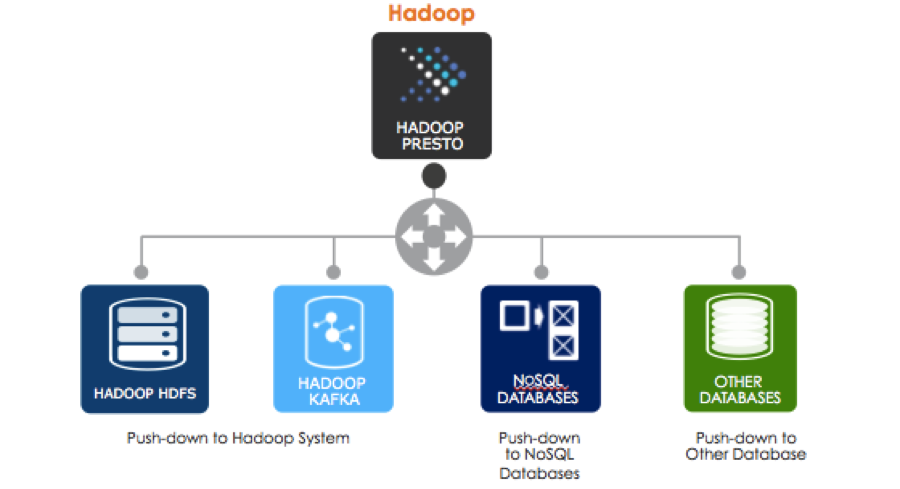 Push down feature